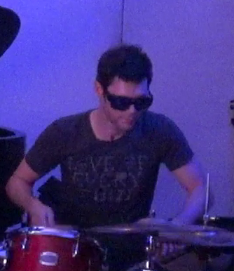 Kevin Shea playing at Spectrum in NYC